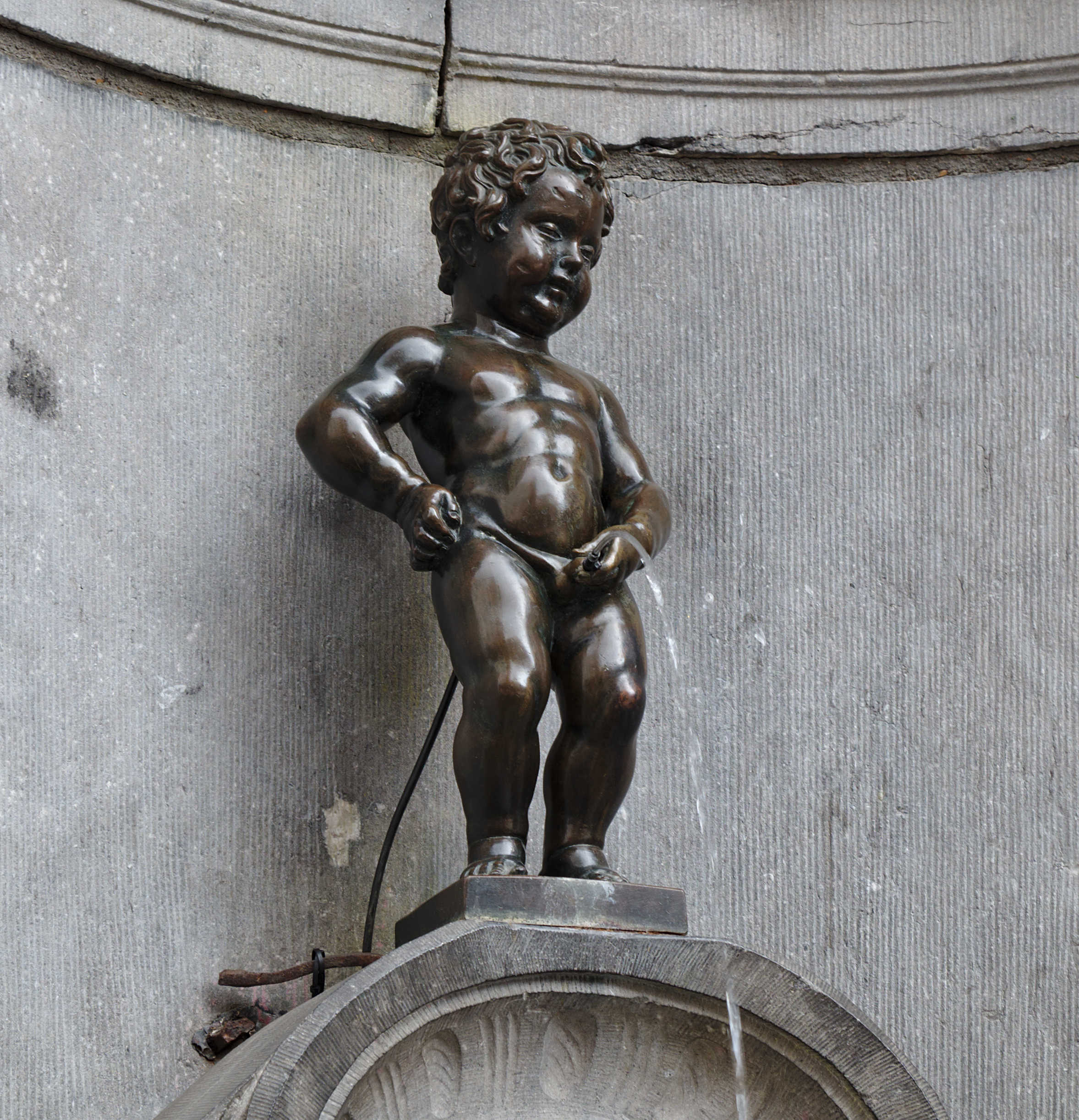 Manneken Pis, Brussels